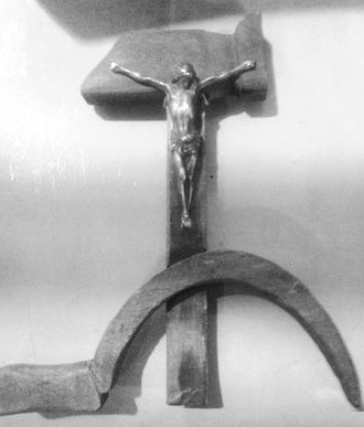 ecce simbolum